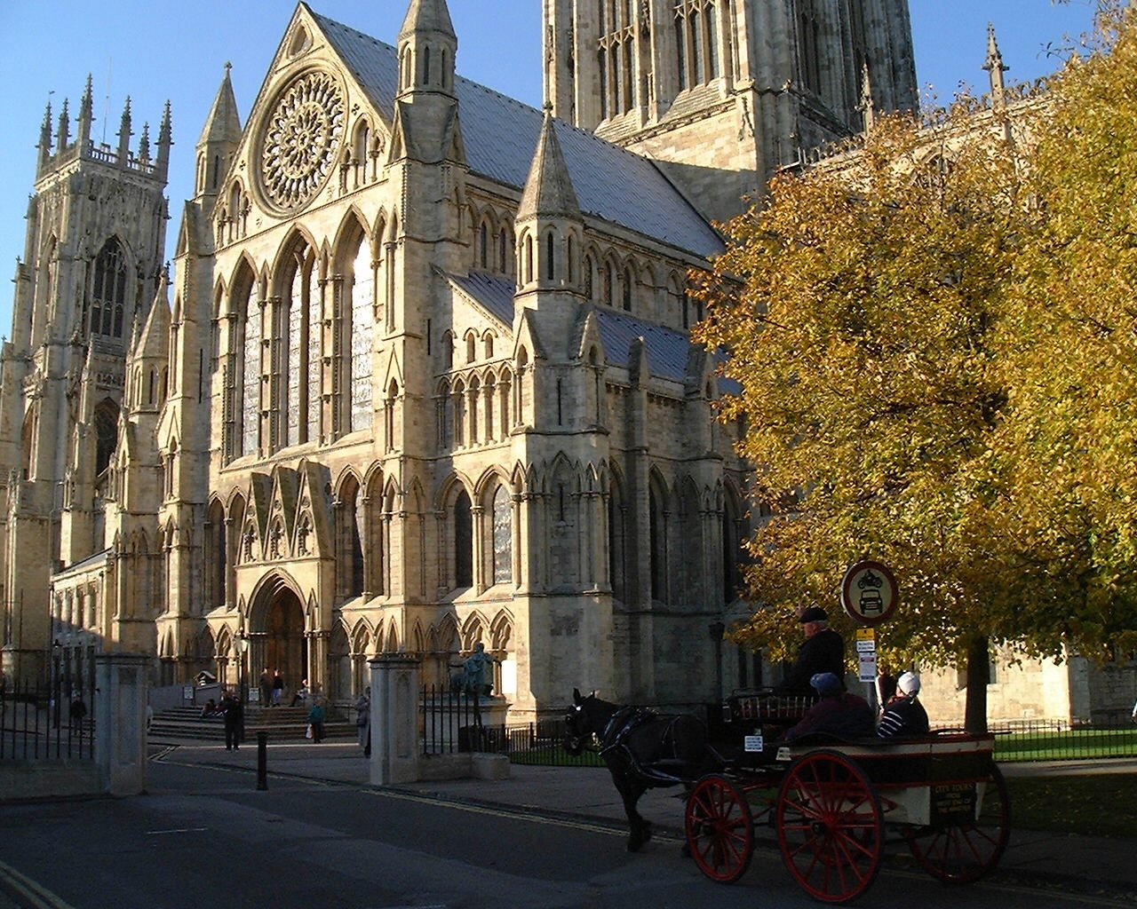 York Minster South Front from East, with Horse Cart